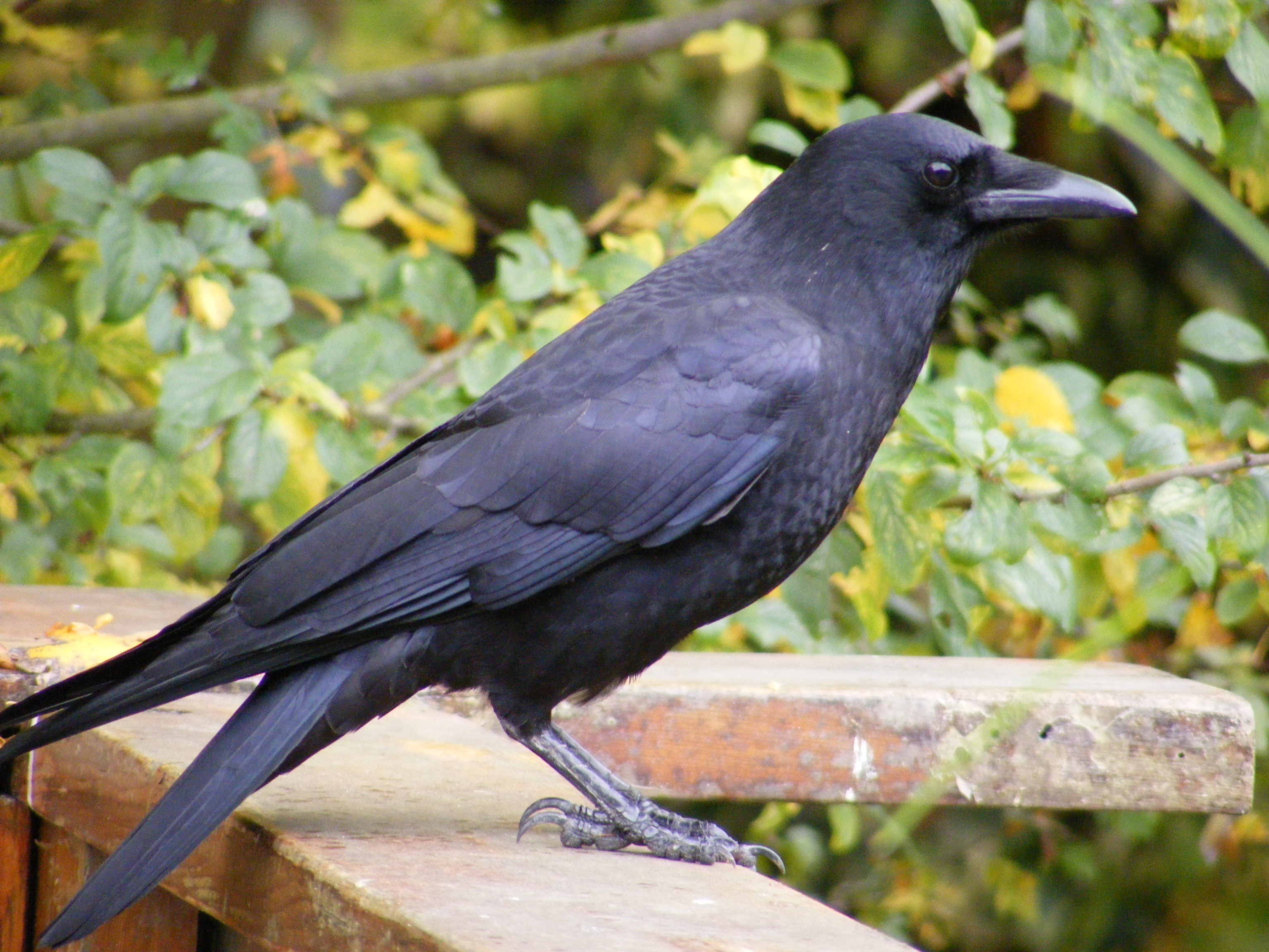 Northwestern Crow on balcony rail